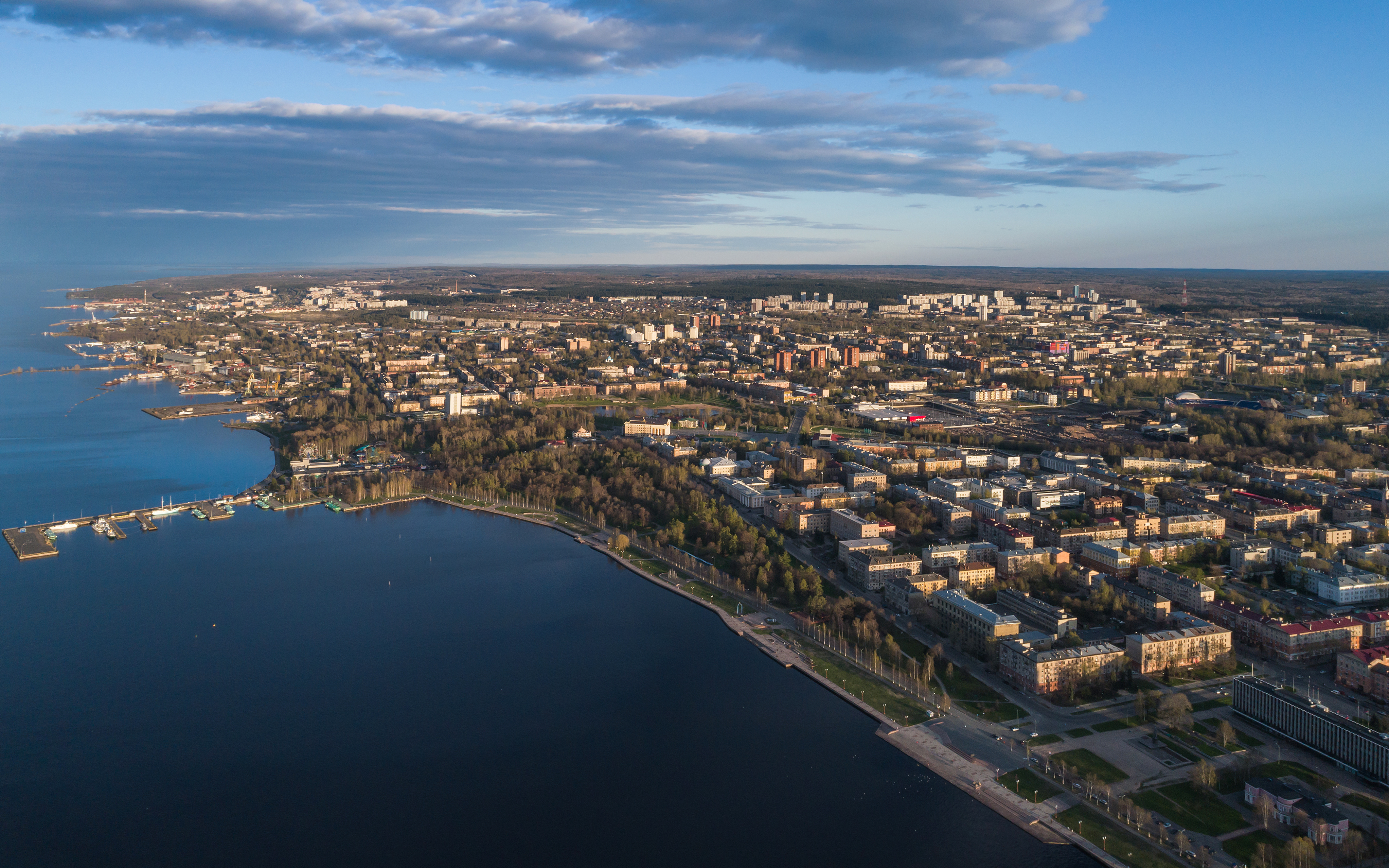 Lake Onega embankment (aerial photo) in Petrozavodsk, Republic of Karelia (Russia).